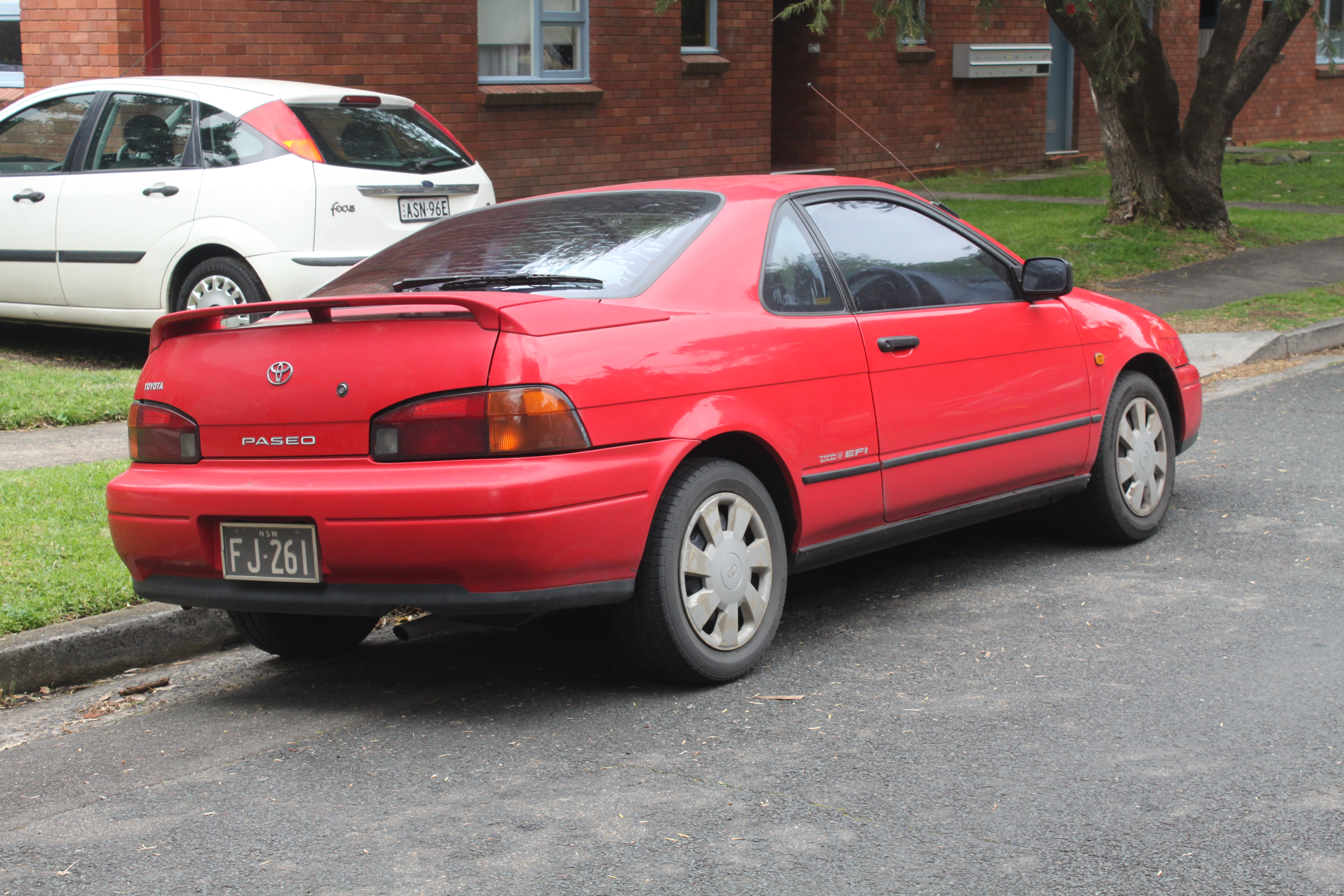 Toyota Paseo EL44